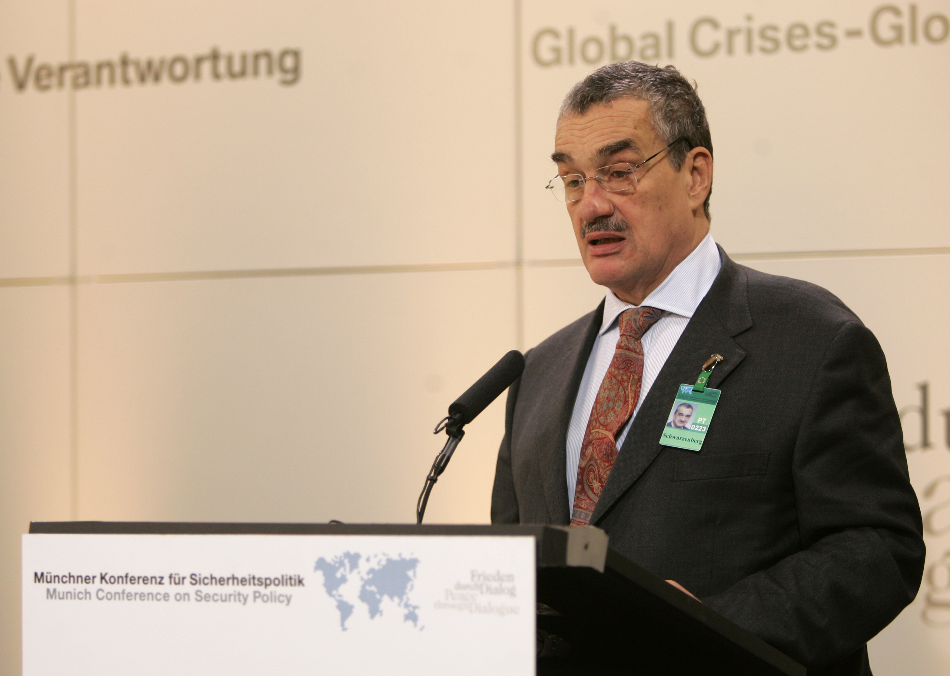 43rd Munich Security Conference 2007: Fürst Karel zu Schwarzenberg, Minister for Foreign Affairs, Czech Republic.